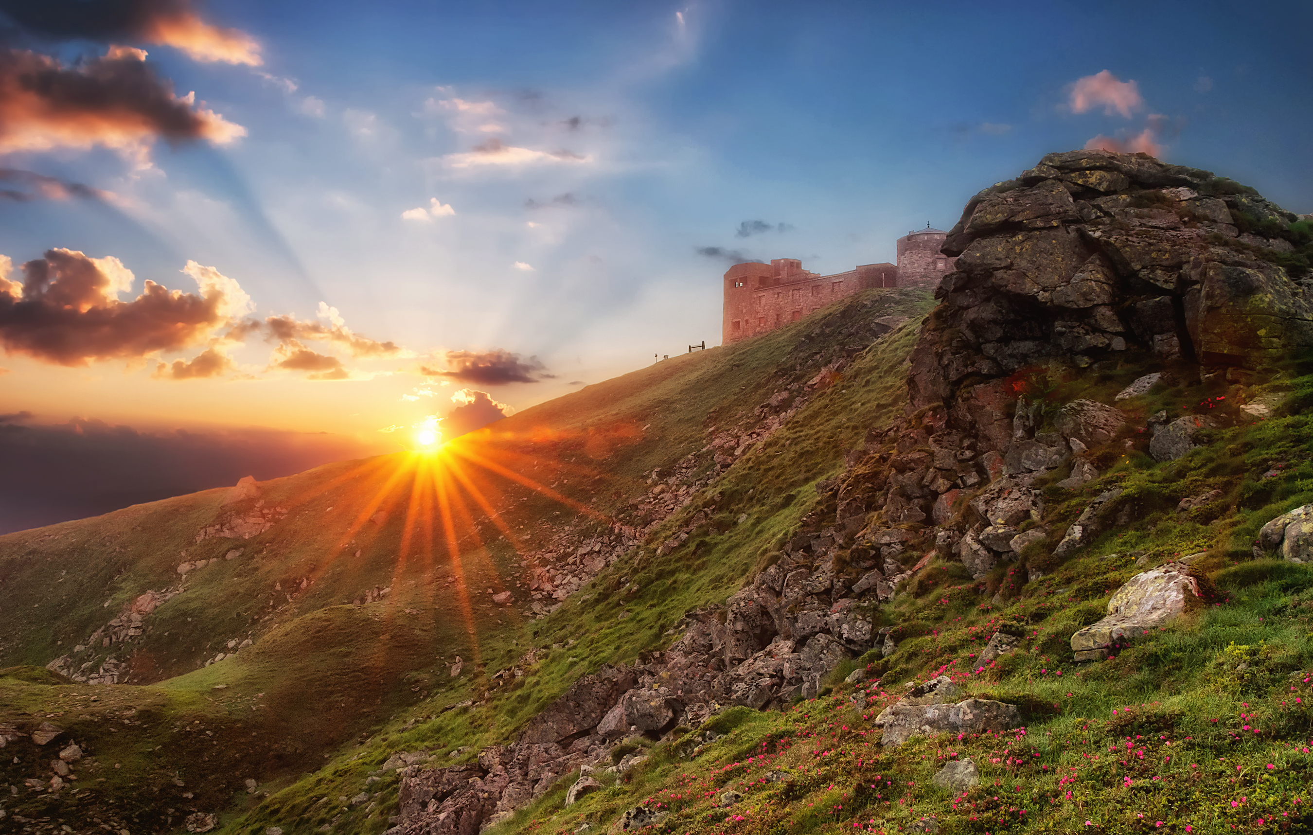 Abandoned Observatory "White Elephant". Carpathian National Nature Park